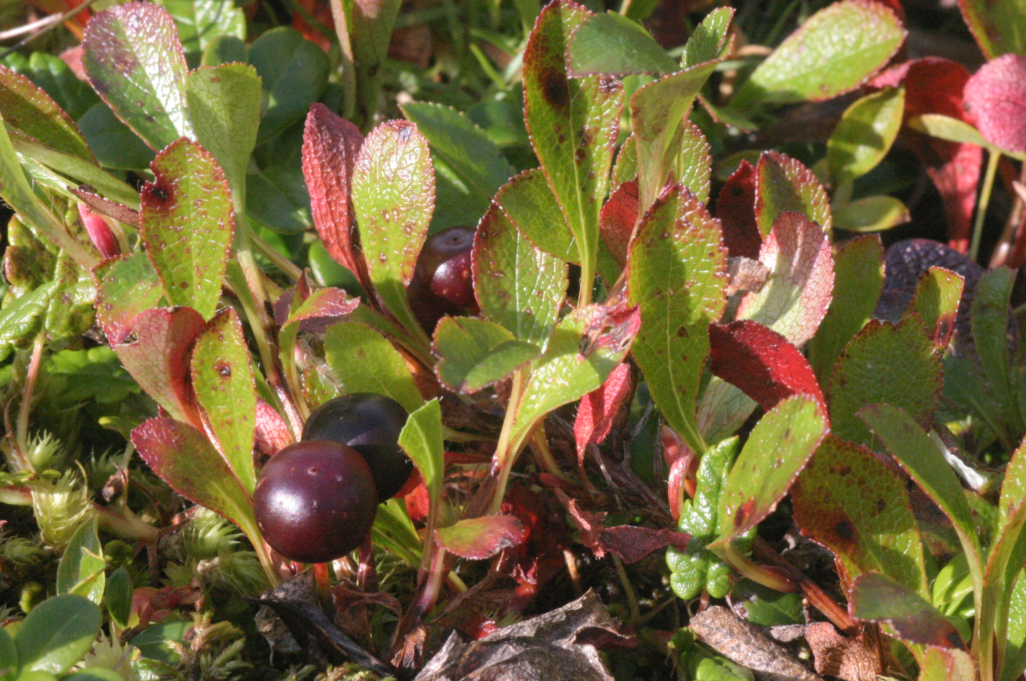 Arctostaphylos alpinus